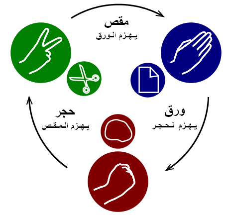 A chart showing how the three game elements of "Rock-paper-scissors" interact